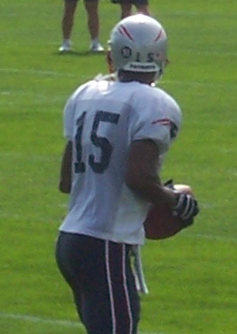 Kelley Washington at 2007 New England Patriots training camp.